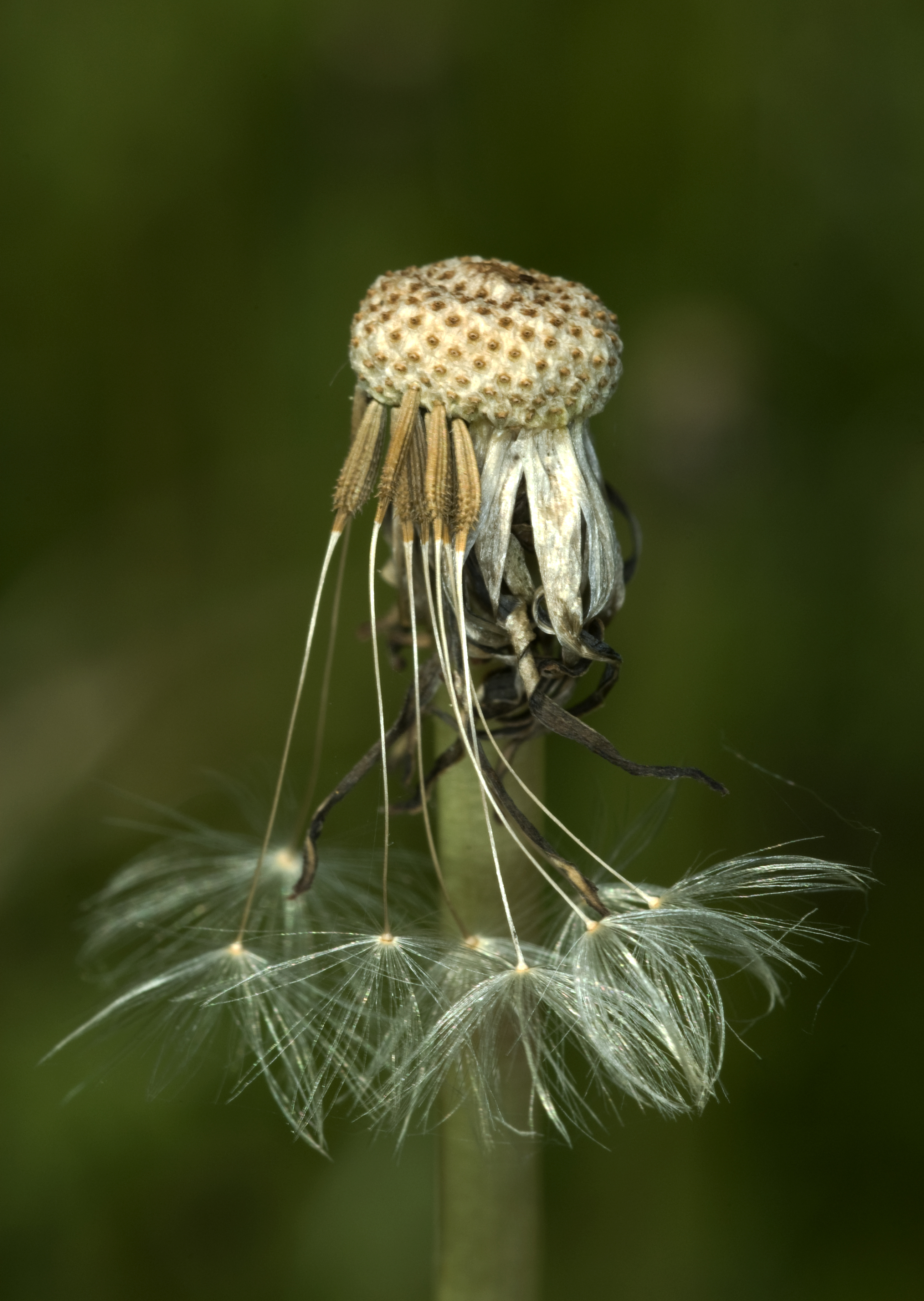 Taraxacum officinale